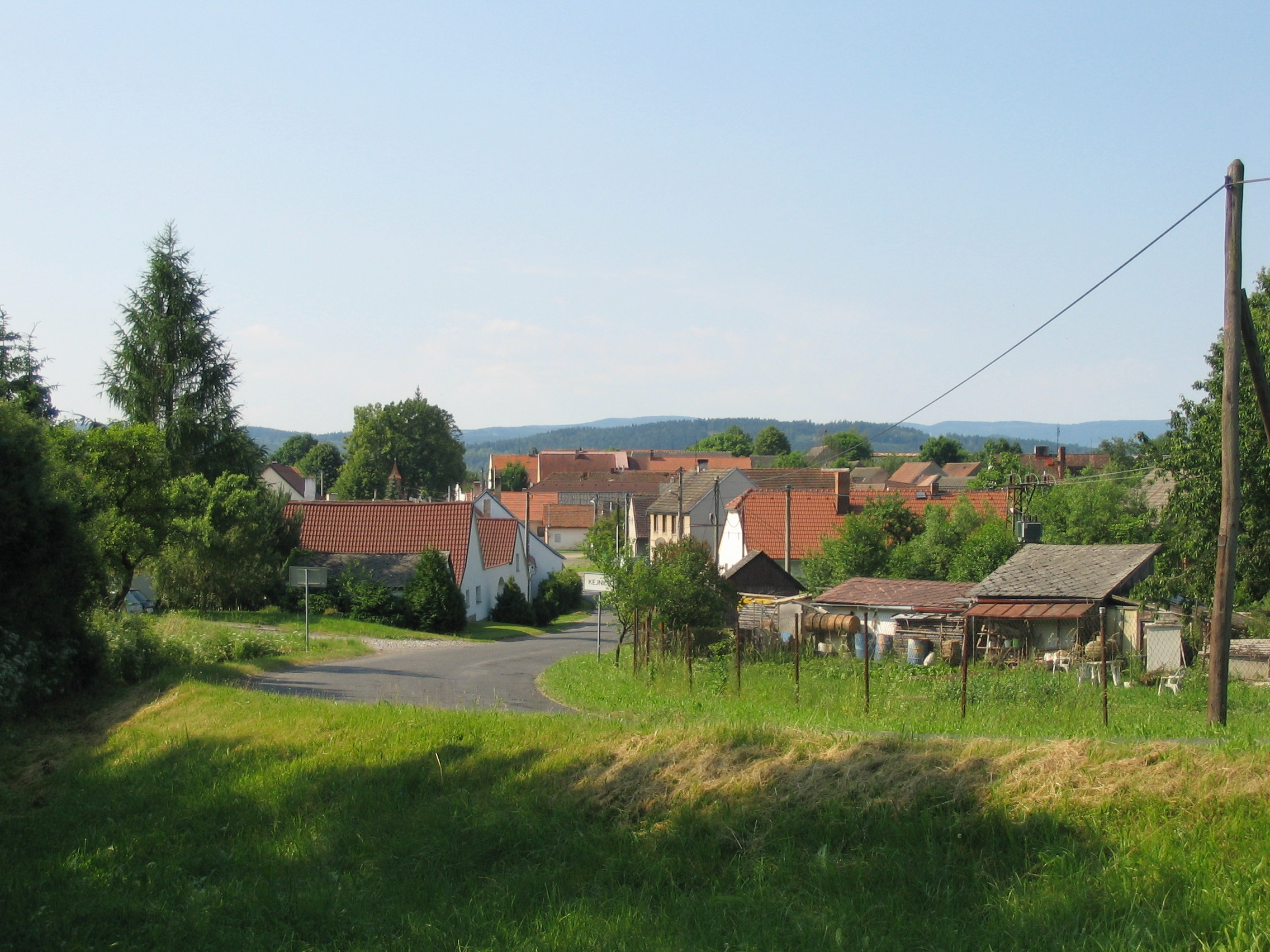 View of Kejnice from the north, Klatovy District, Czech Republic